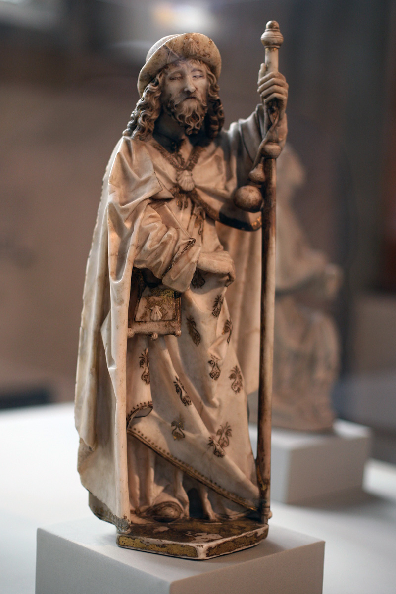 Gil de Siloe (Spanish, active 1475–1505) Saint James the Greater, ca. 1489–1493 Spanish Alabaster, gold, and paint; Overall: 18 1/16 in. (45.9 cm) The Metropolitan Museum of Art, New York, The Cloisters Collection, 1969 (69.88) View at the Metropolitan Museum of Art website Wikipedia Loves Art at the Metropolitan Museum of Art This photo of item # 69.88 at the Metropolitan Museum of Art was contributed under the team name "shooting_brooklyn" as part of the Wikipedia Loves Art project in February 2009. Metropolitan Museum of Art The original photograph on Flickr was taken by shooting brooklyn—please add a comment to the original Flickr page whenever a use has been made on Wikipedia or another project. Project galleries on Flickr: this institution, this team